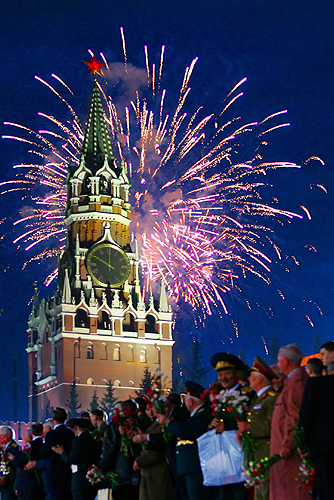 RED SQUARE, MOSCOW. Victory Day fireworks display.